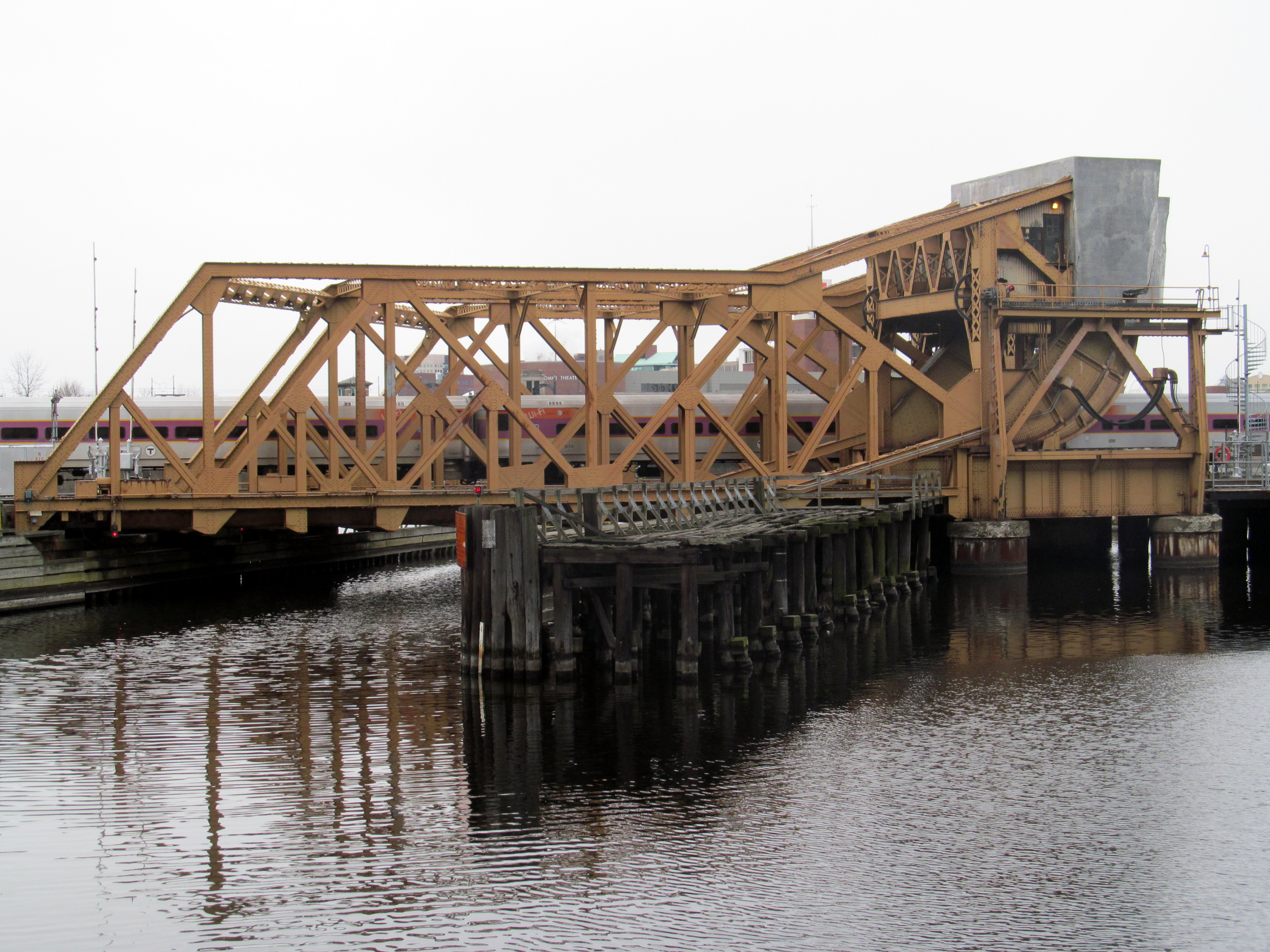 Charles River Bridge in 2013 with a train crossing, as viewed from Paul Revere Park in Charlestown, Massachusetts